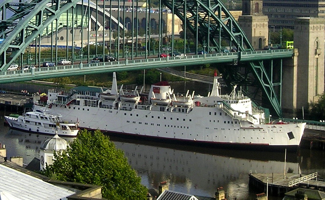 The Tuxedo Princess (the former car ferry TSS Caledonian Princess), a floating nightclub permanently moored underneath the Tyne Bridge, on the Gateshead side of the River Tyne in Newcastle upon Tyne, England.